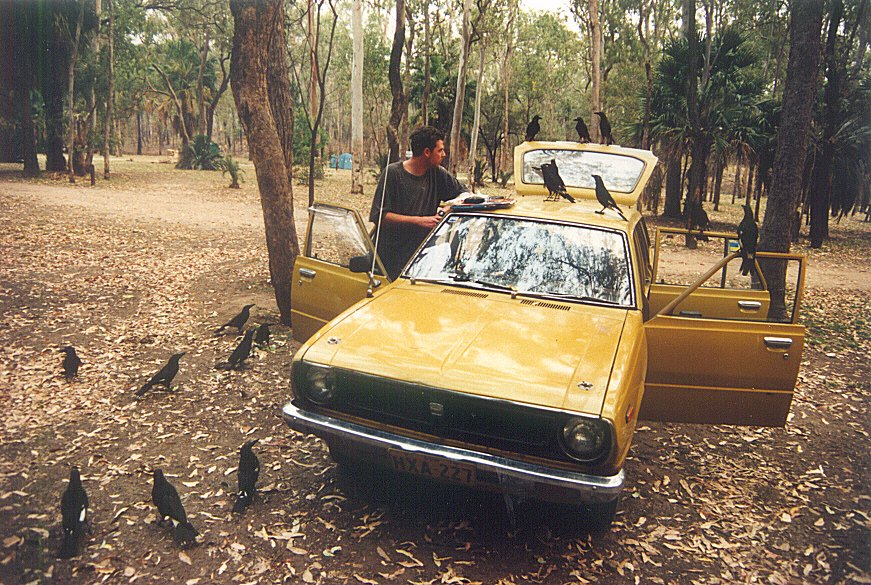 Pied Currawongs (Strepera graculina) , Carnarvon Gorge 1994, keen for a feed photo Cas Liber